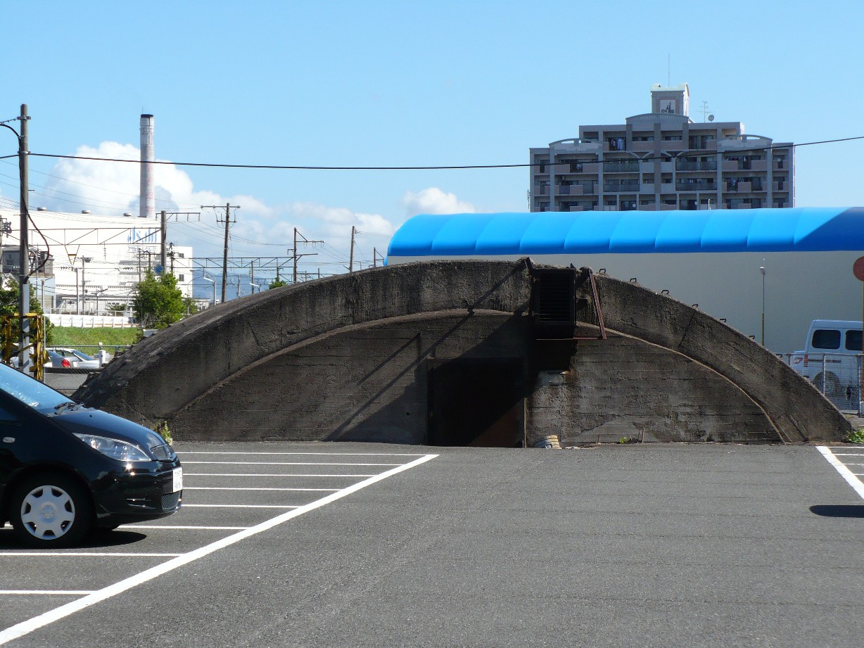 Site of Moji side vertical shaft for Kyushu-bound track of Kammon railway tunnel